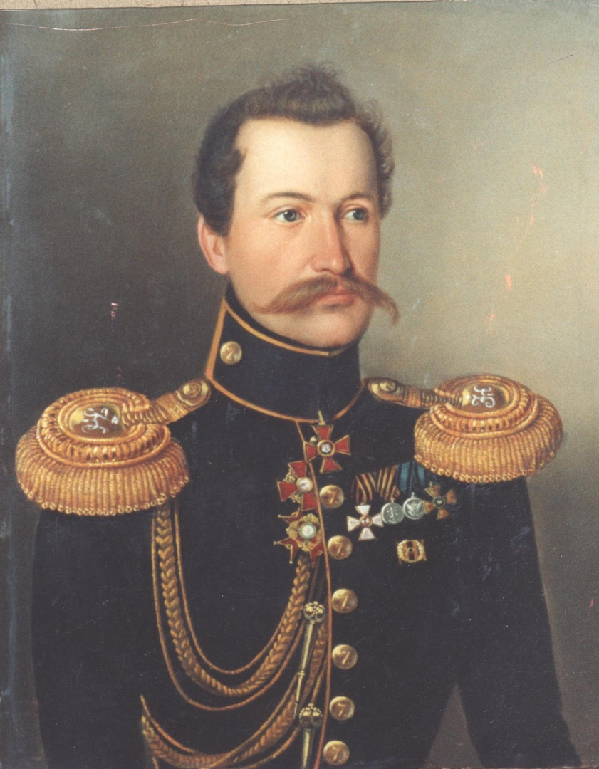 Alexander Johann von Brevern